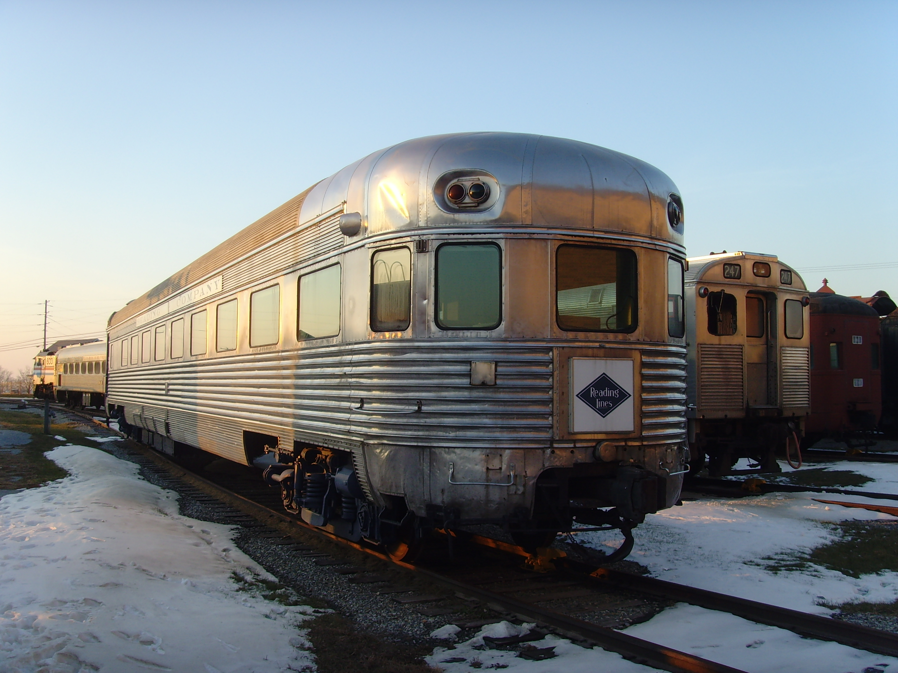 Photo of the lounge car of a Reading Railroad (Reading Lines) streamliner. This would seem to be the Reading's Crusader. Photo was taken at the Railroad Museum of Pennsylvania at Strasburg, PA.